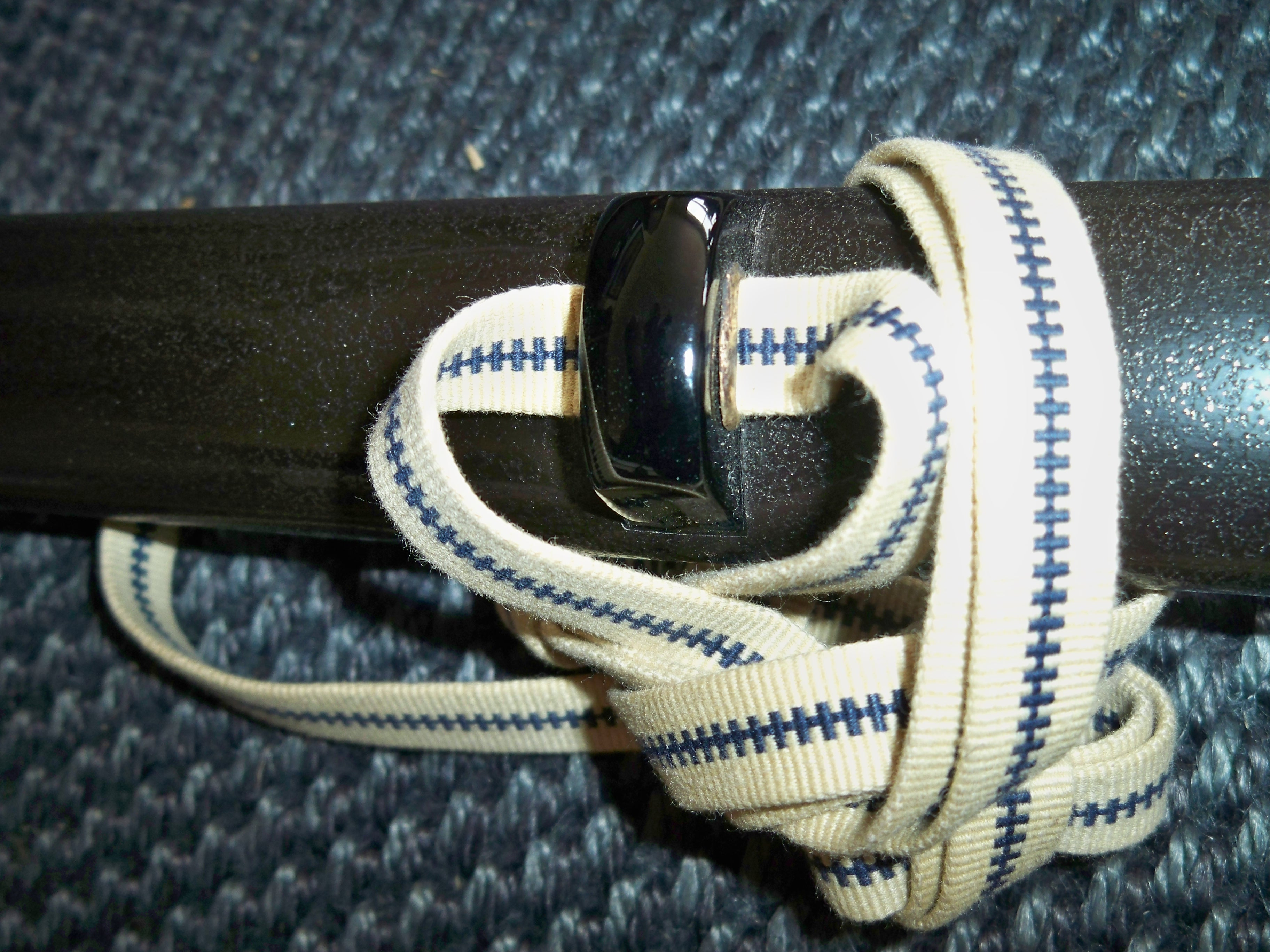 Kurikata and sageo of a Japanese sword.